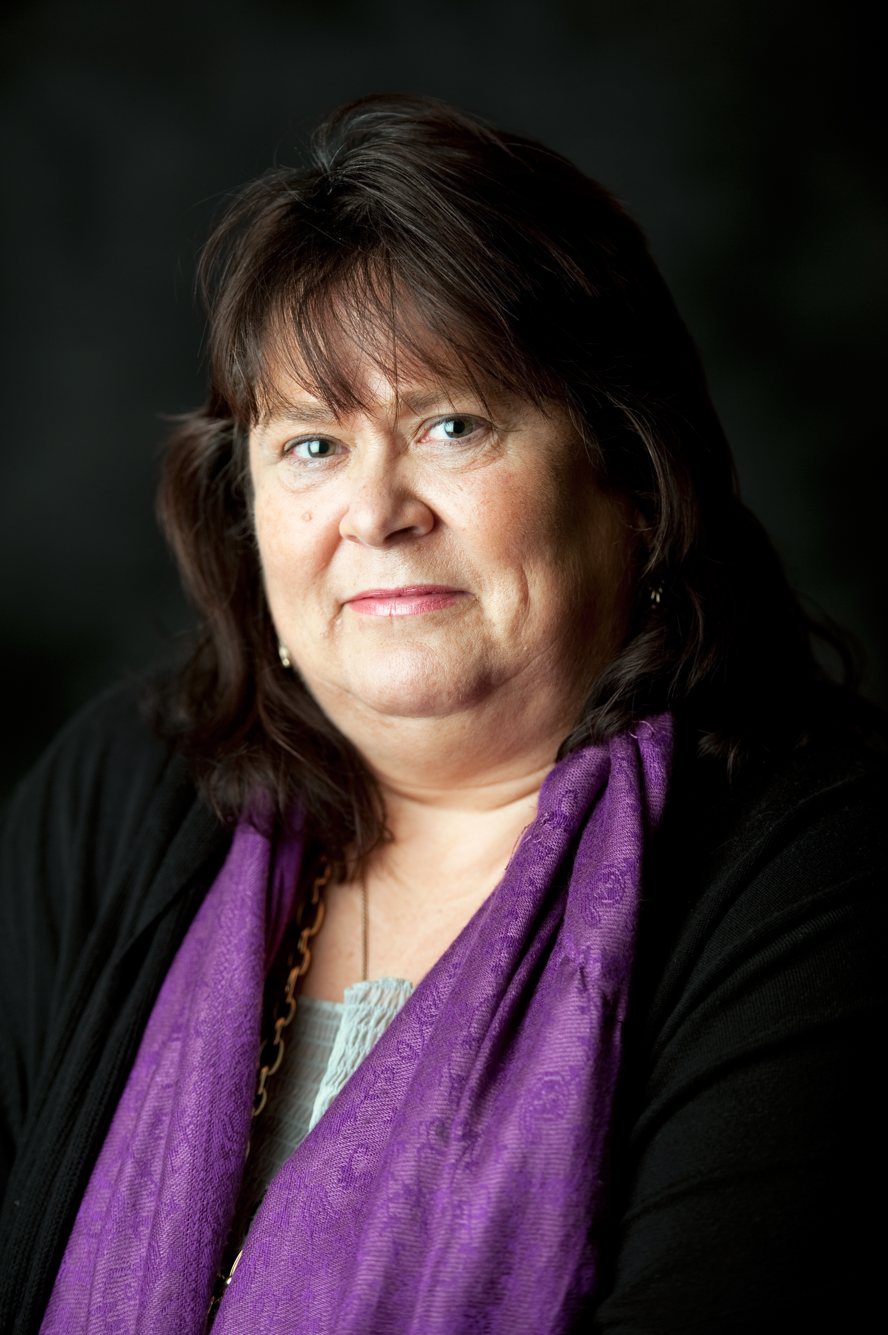 Sonja Mandt Det norske Arbeiderparti (A) Norge. Foto: Johannes Jansson/norden.org Keywords: Sonja Mandt (A)